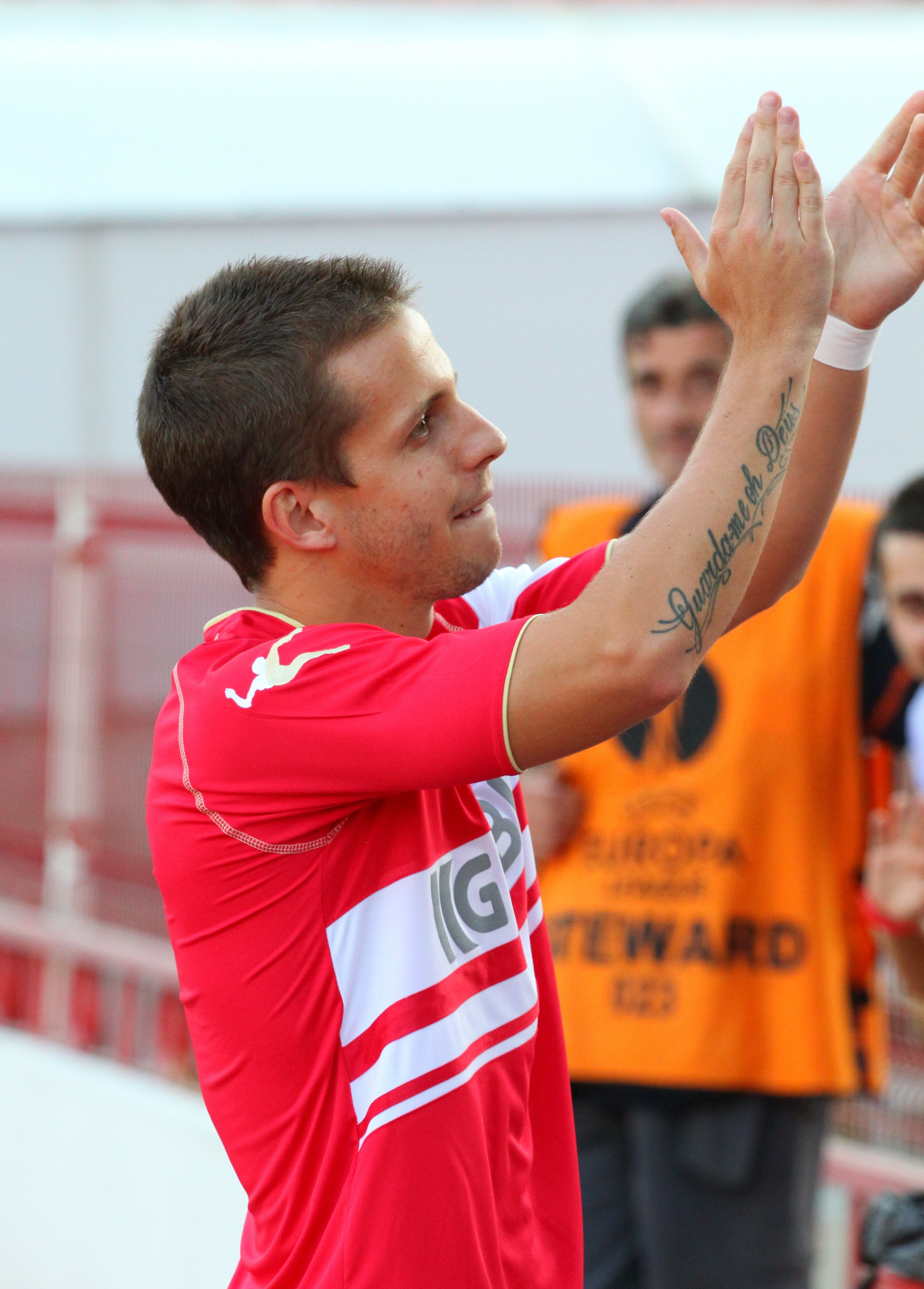 Lukas Sasha - brasilian soccer player, he played for CSKA Sofia.